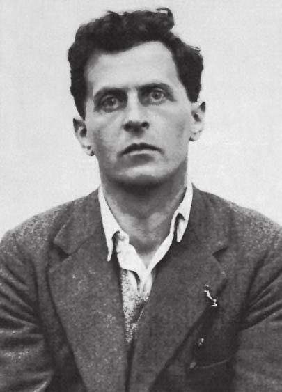 Portrait above on being awarded a scholarship from Trinity College, 1929.